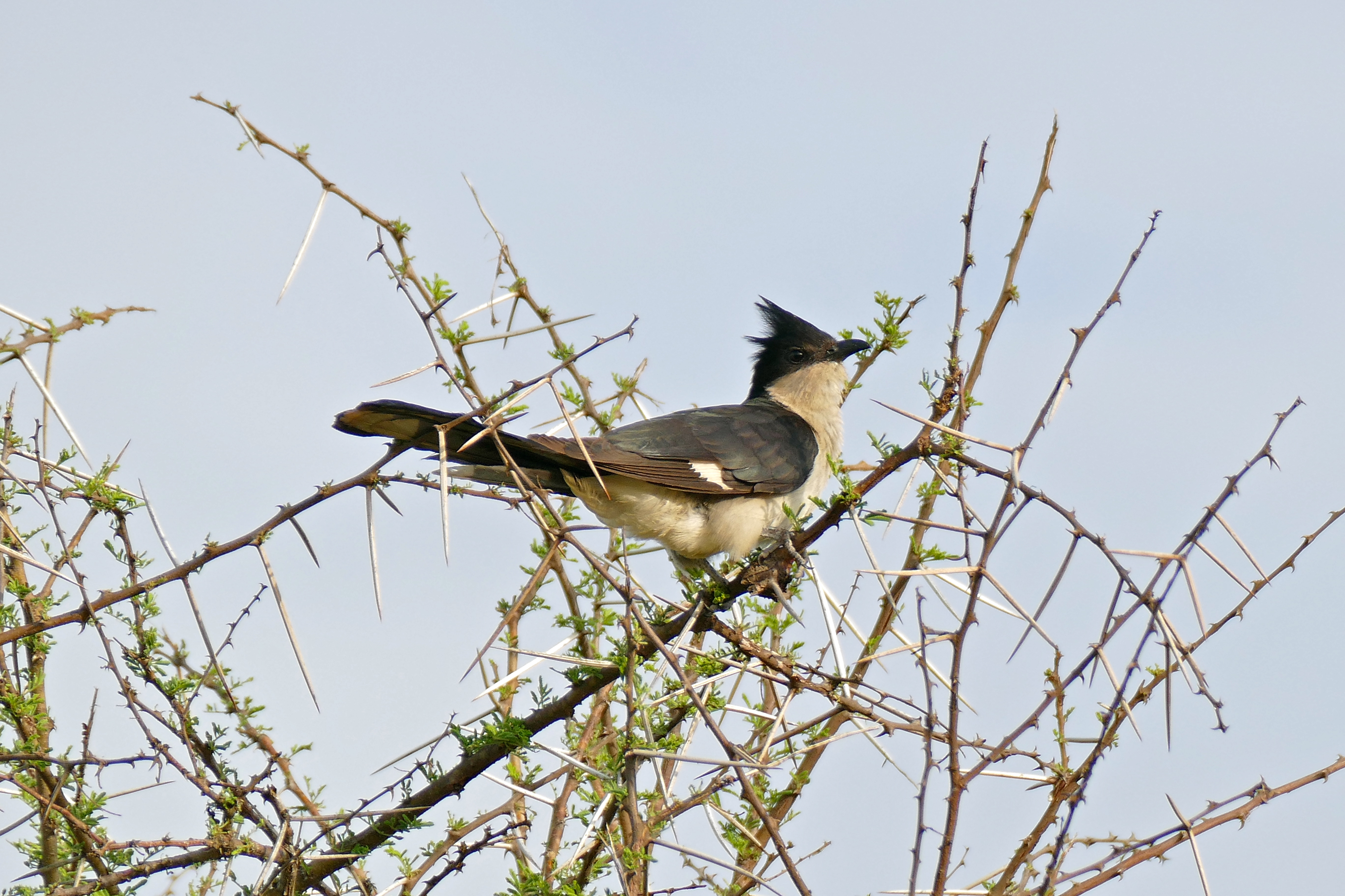 H4-2 Road North of Crocodile Bridge, Kruger NP, SOUTH AFRICA